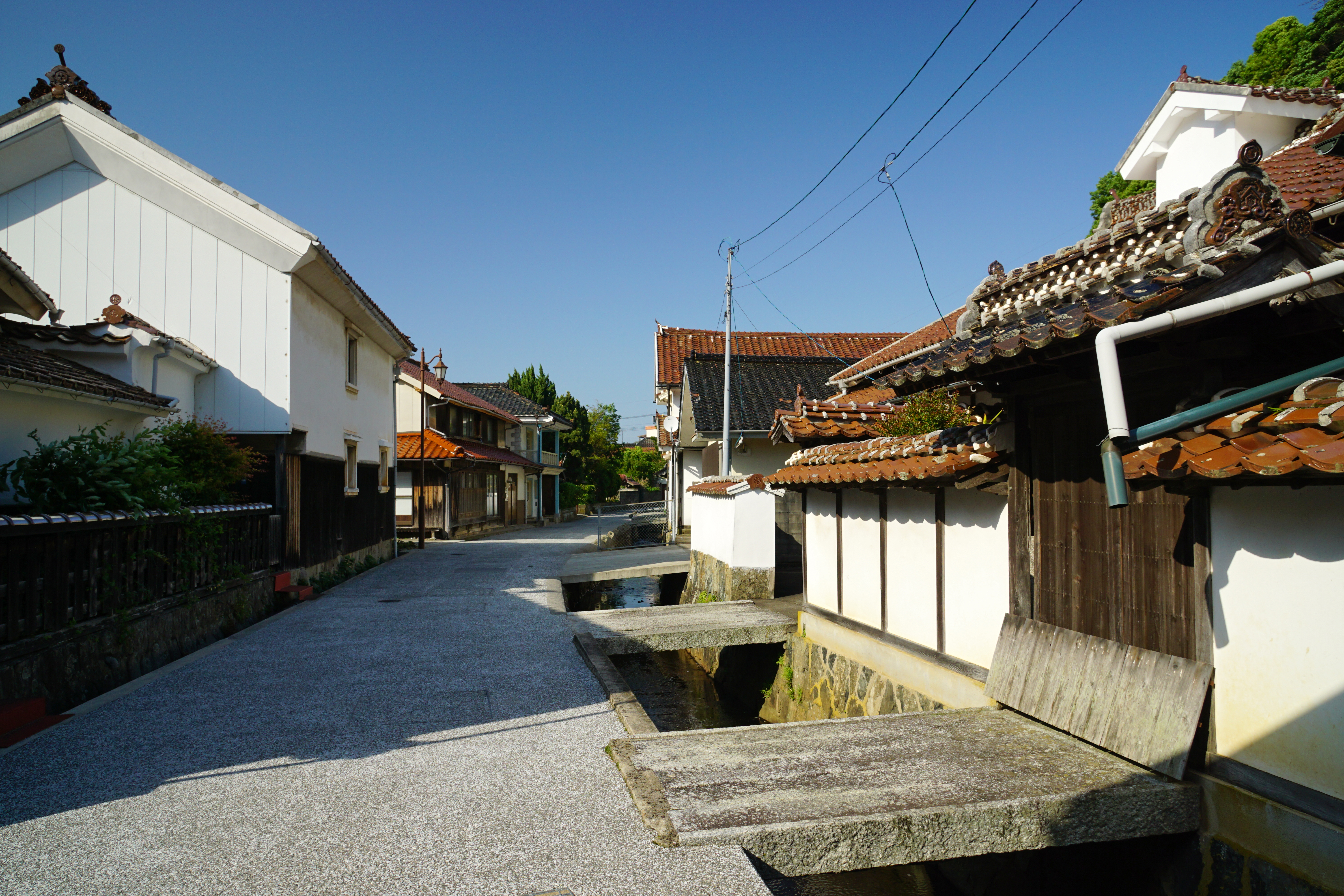 At Gotsuhommachi, Gotsu, Shimane prefecture, Japan